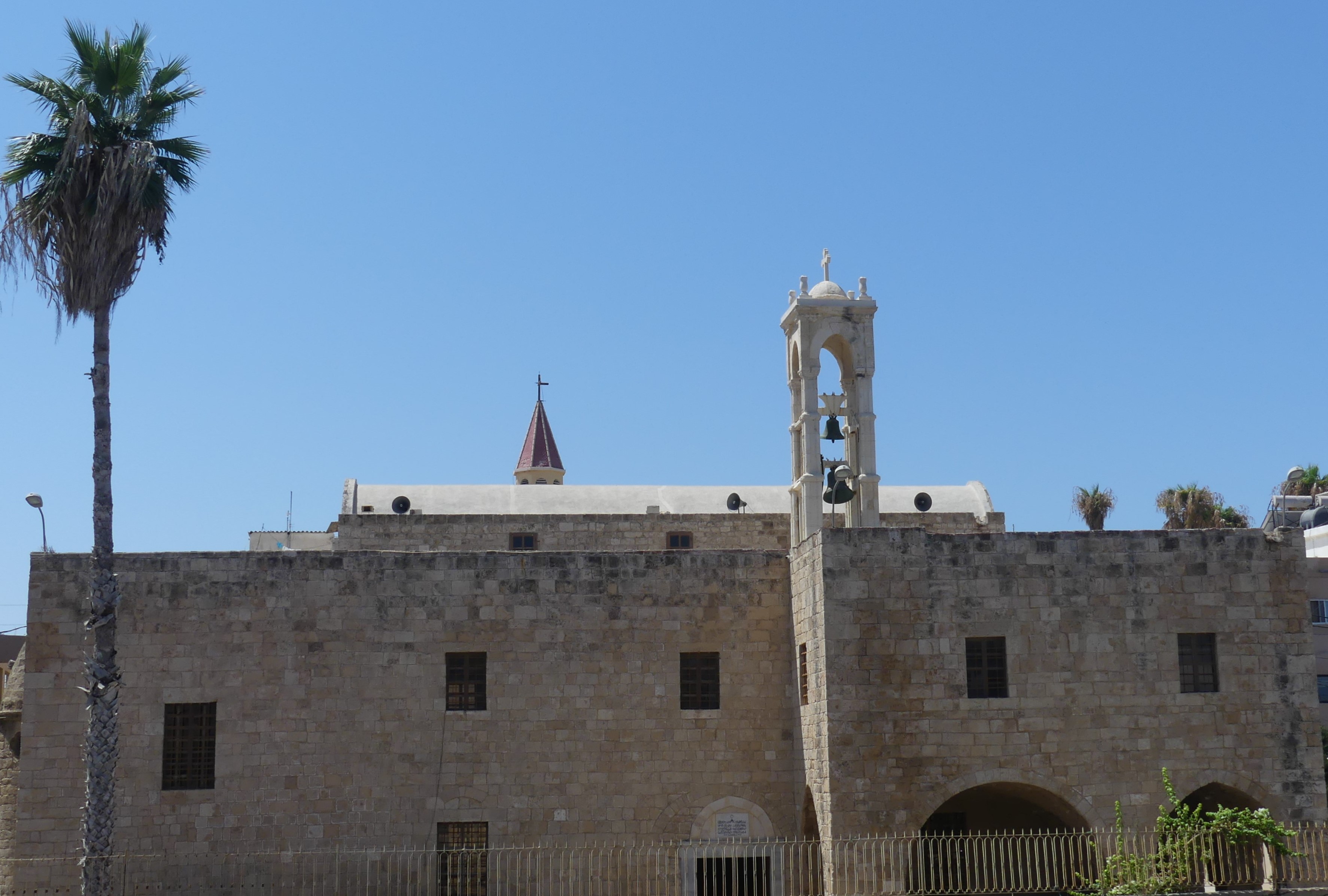 Northern sideview of the Melkite Greek Catholic Cathedral of St. Thomas in Tyre, South Lebanon, with the the tower of the Catholic-Latin church of the Couvent de Terre Sainte in the background